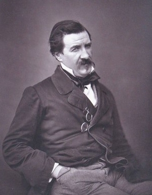 Champfleury by Nadar Woodburytype, 9 x 7 1/4" (22.8 x 18.4 cm). Museum of Modern Art